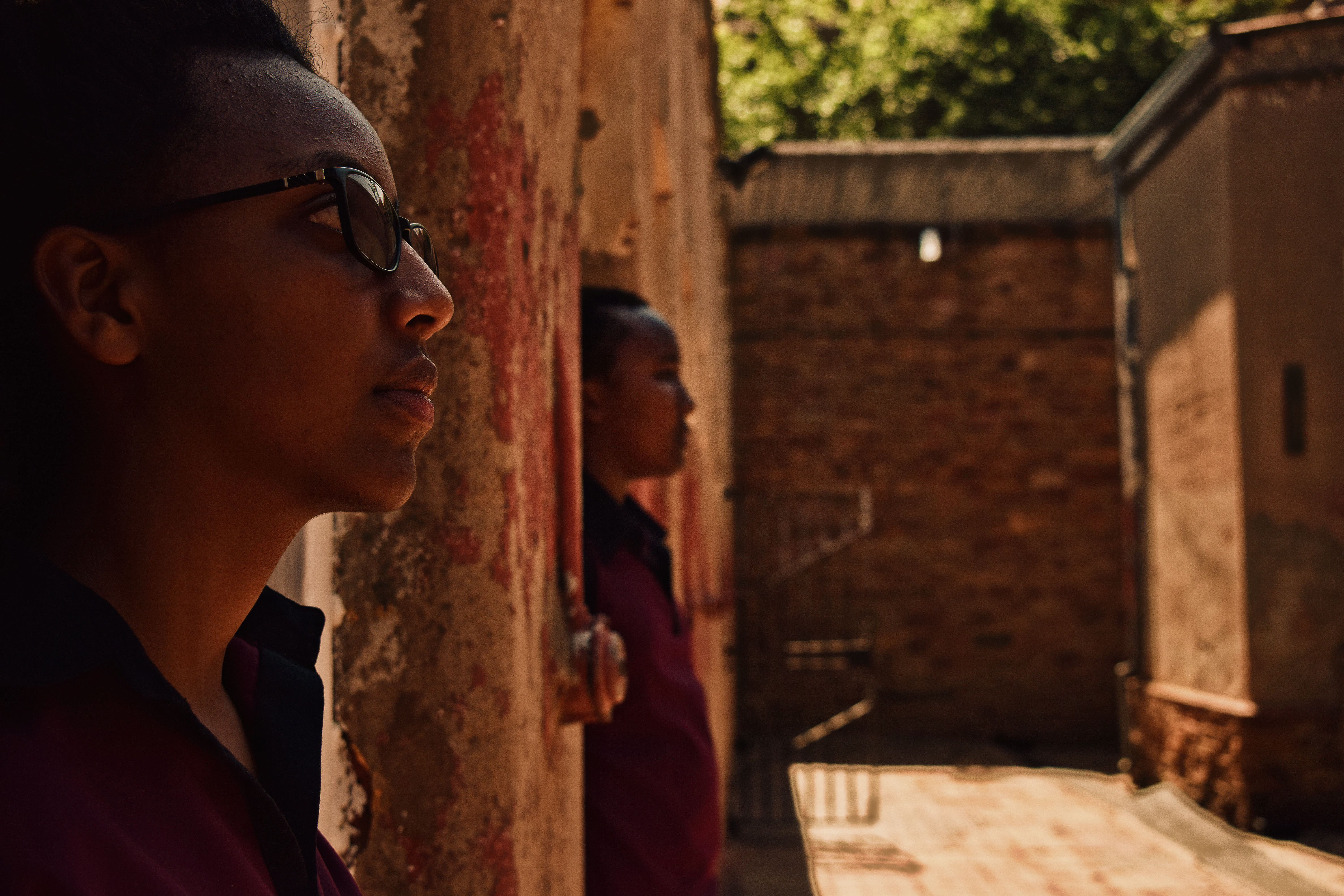 I am a Kenyan student studying in South Africa. As a student, my job is to learn. I learn about the world, about other people's culture. I believe an important aspect is empathizing with what we learn to fully understand what we have or don't, and what we can do. This photo was taken by myself at Constitution Hill in Johannesburg, South Africa. These are isolation cells that were used during Apartheid. Visiting this historical place during a school trip, I immersed myself in a world that seems so far yet was a reality just a few years back. Students actively learning and delving deep into their academia looks like this. Students at work. This is an image of "African people at work" from South Africa